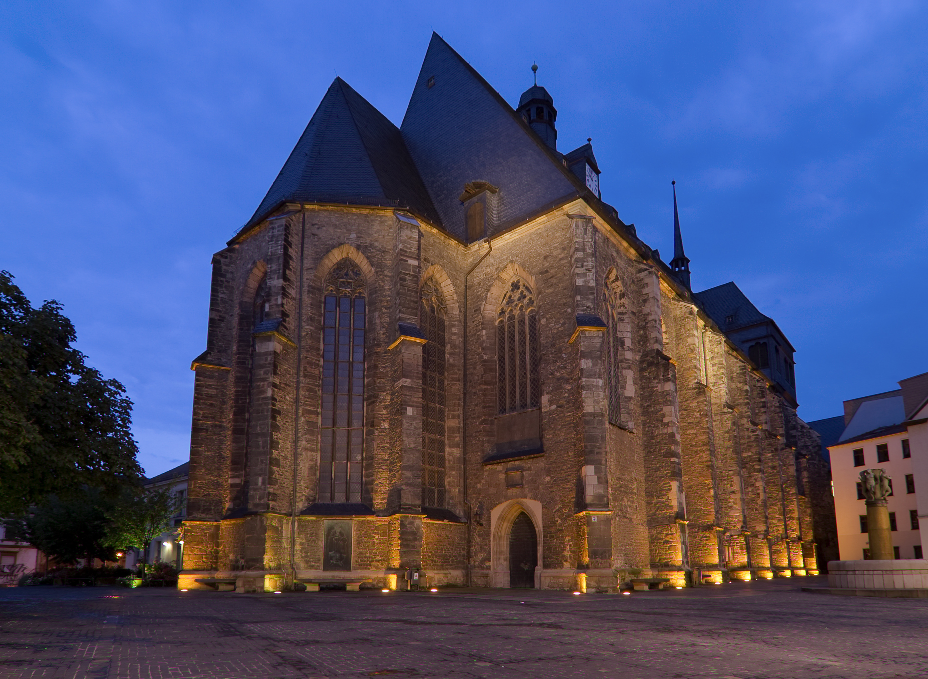 Concert Hall St Ulrich-Kirche in Halle (Saale), Saxony Anhalt